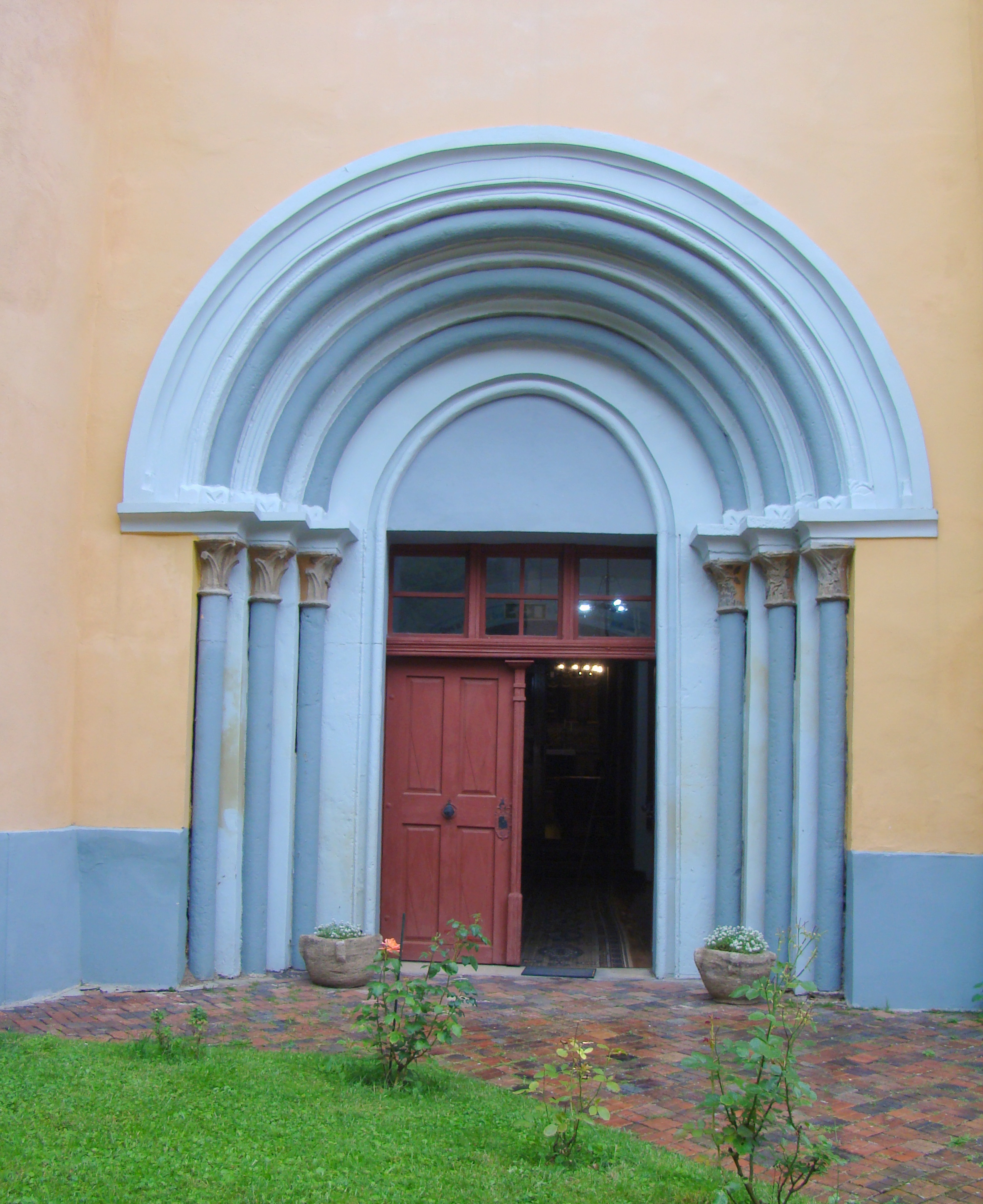 Fortified church in Cristian, Brașov County, Romania